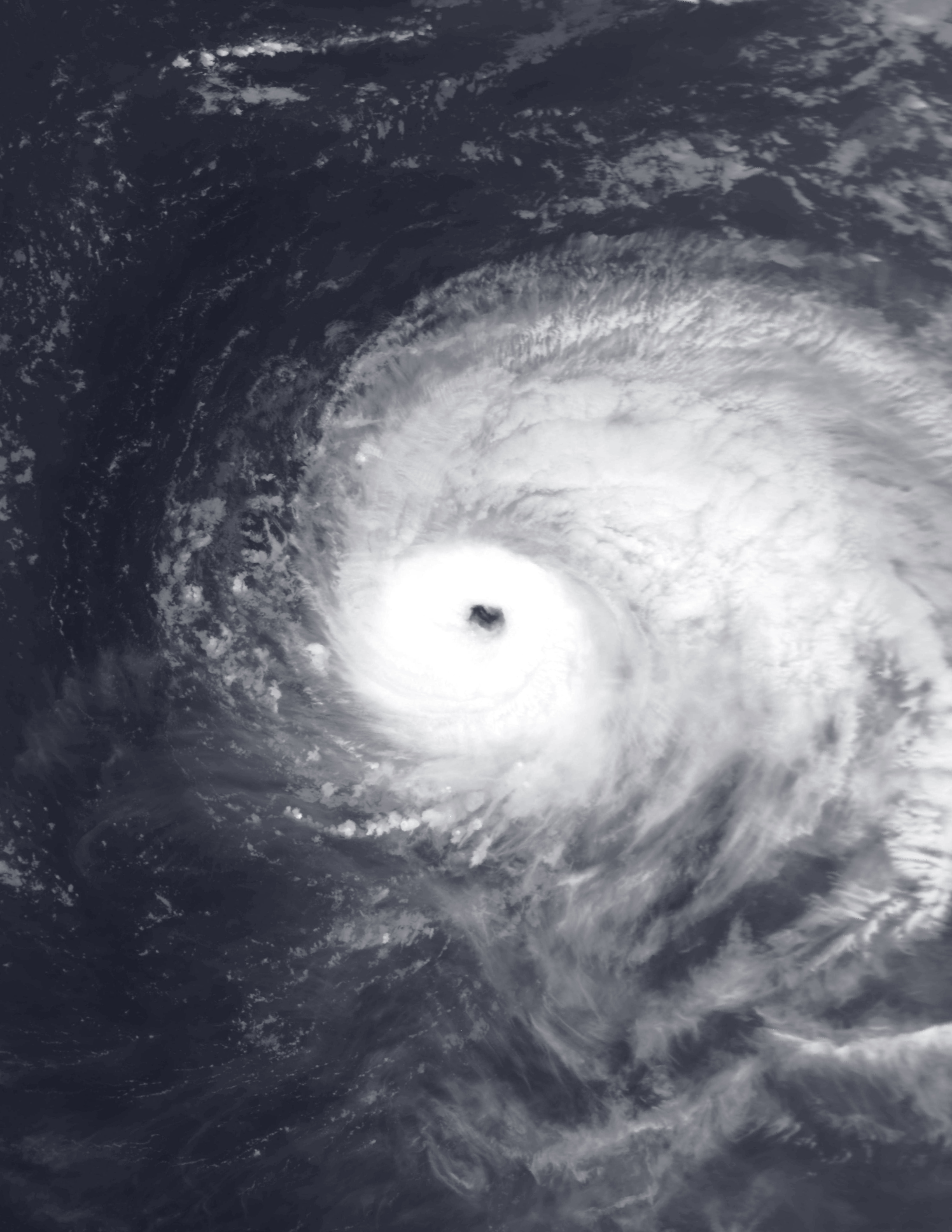 Hurricane Lorenzo over the open Atlantic at 01:31 UTC on September 29, 2019. At the time, the National Hurricane Center analyzed the storm as having winds of 125 knots, making it a Category 4 hurricane.